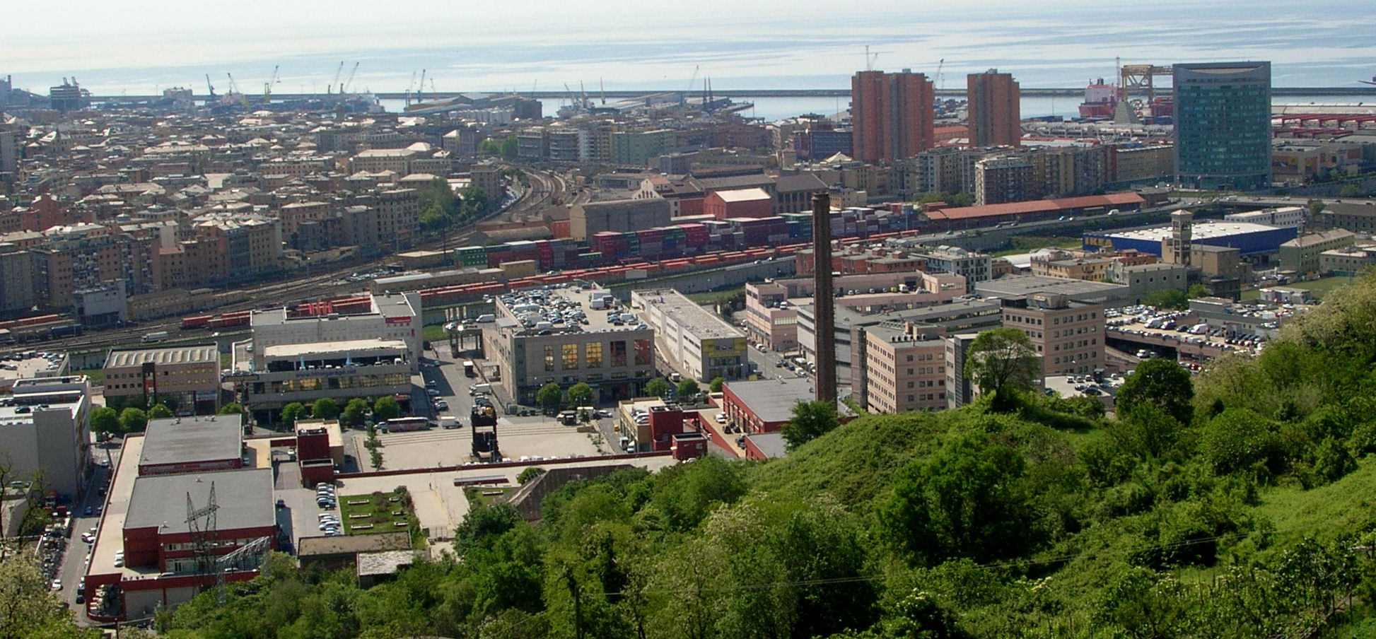 Genoa, Campi (view)